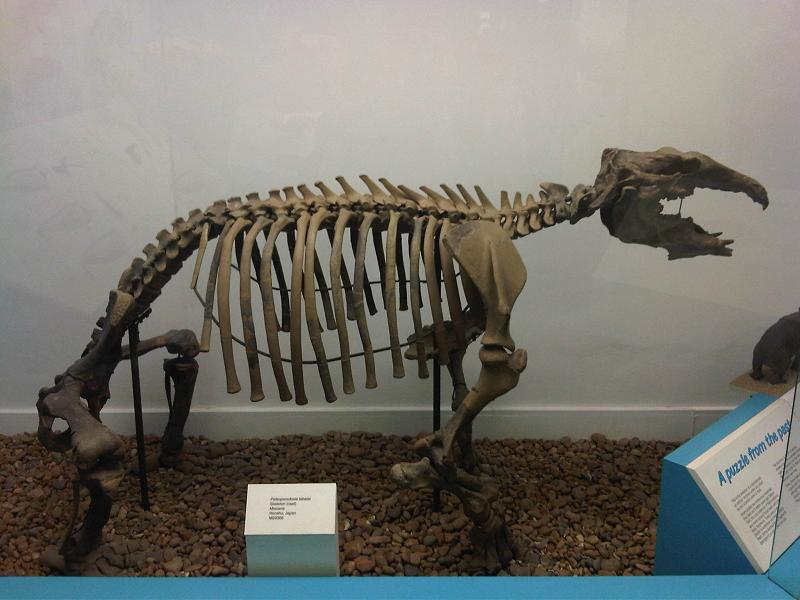 Paleoparadoxia tabatai skeleton at the Natural History Museum in London, England.